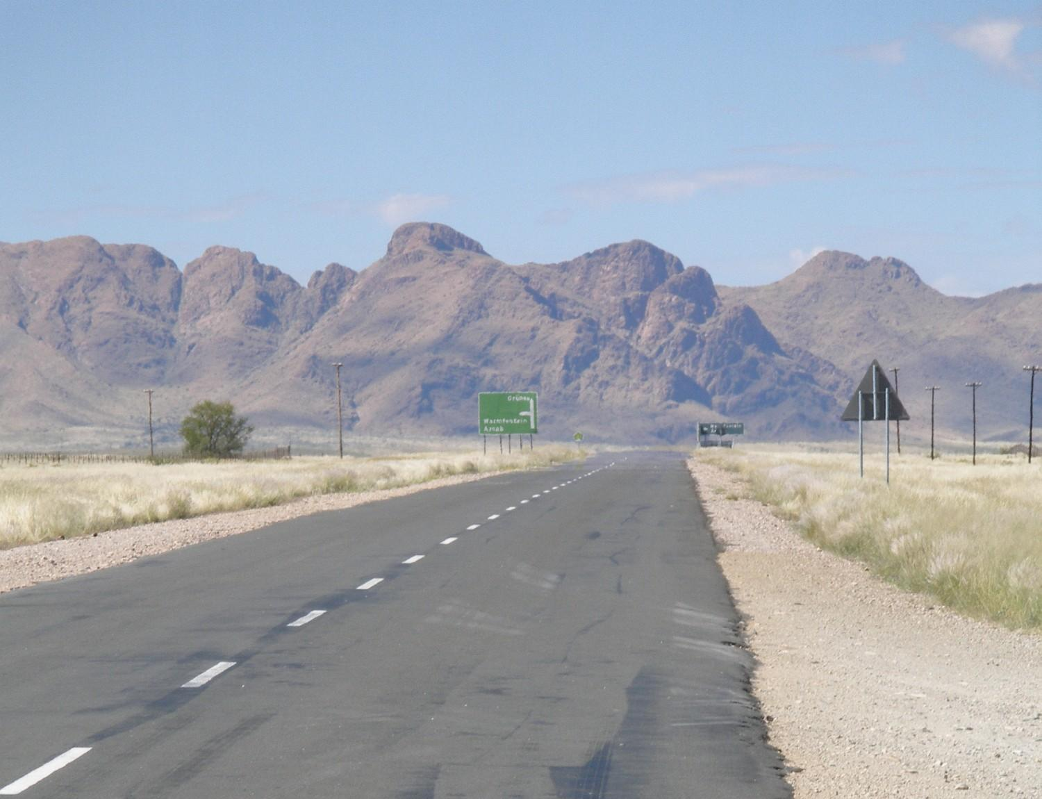 B1 between Keetmanshoop and Grünau, South Namibia